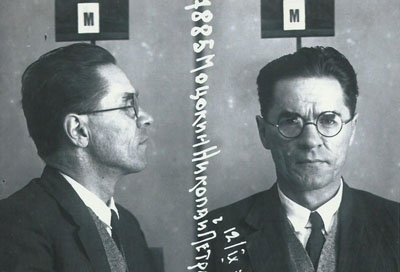 Nikolay Matsokin's last photo made after his second arrest in 1937. From FSB archives.